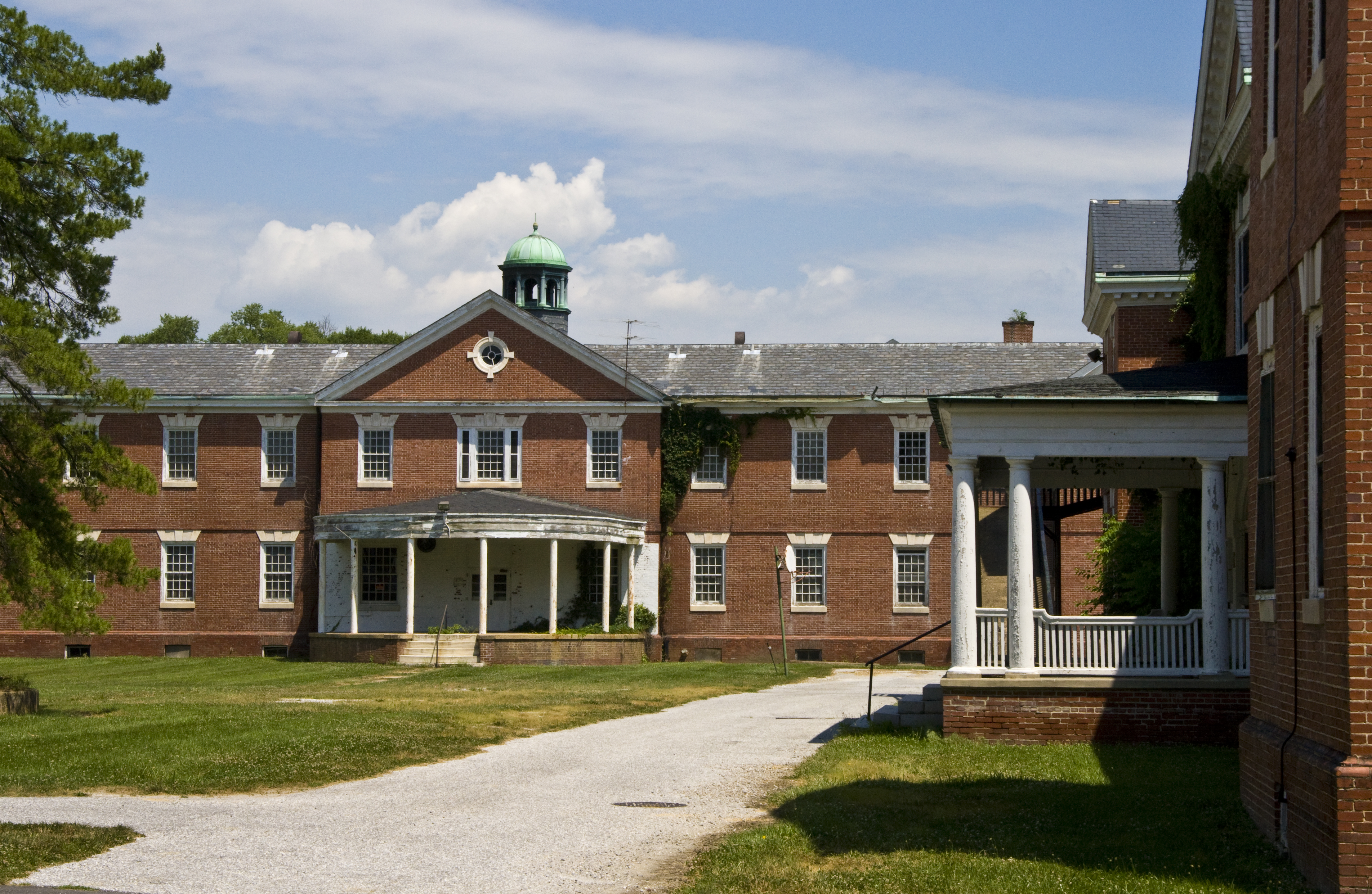 Warfield Complex, Springfield Hospital Center, Sykesville, Maryland, USA